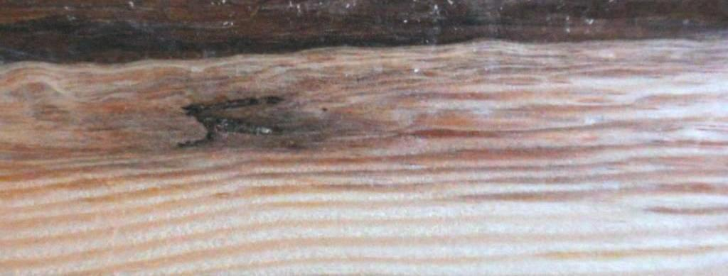 Resin streak